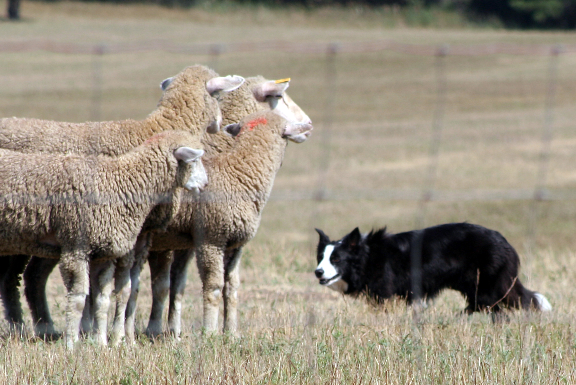 BC_eye.jpg, Border Collie exhibiting "Collie Eye" to stare down sheep